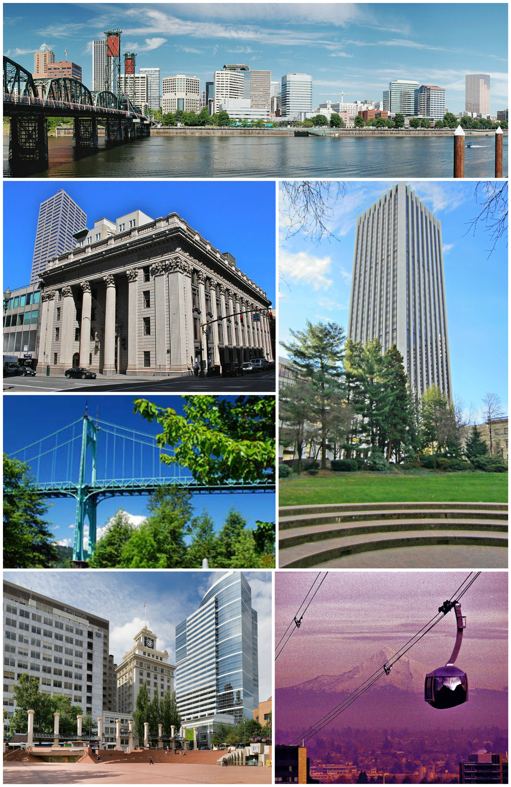 Collage of Portland, Oregon